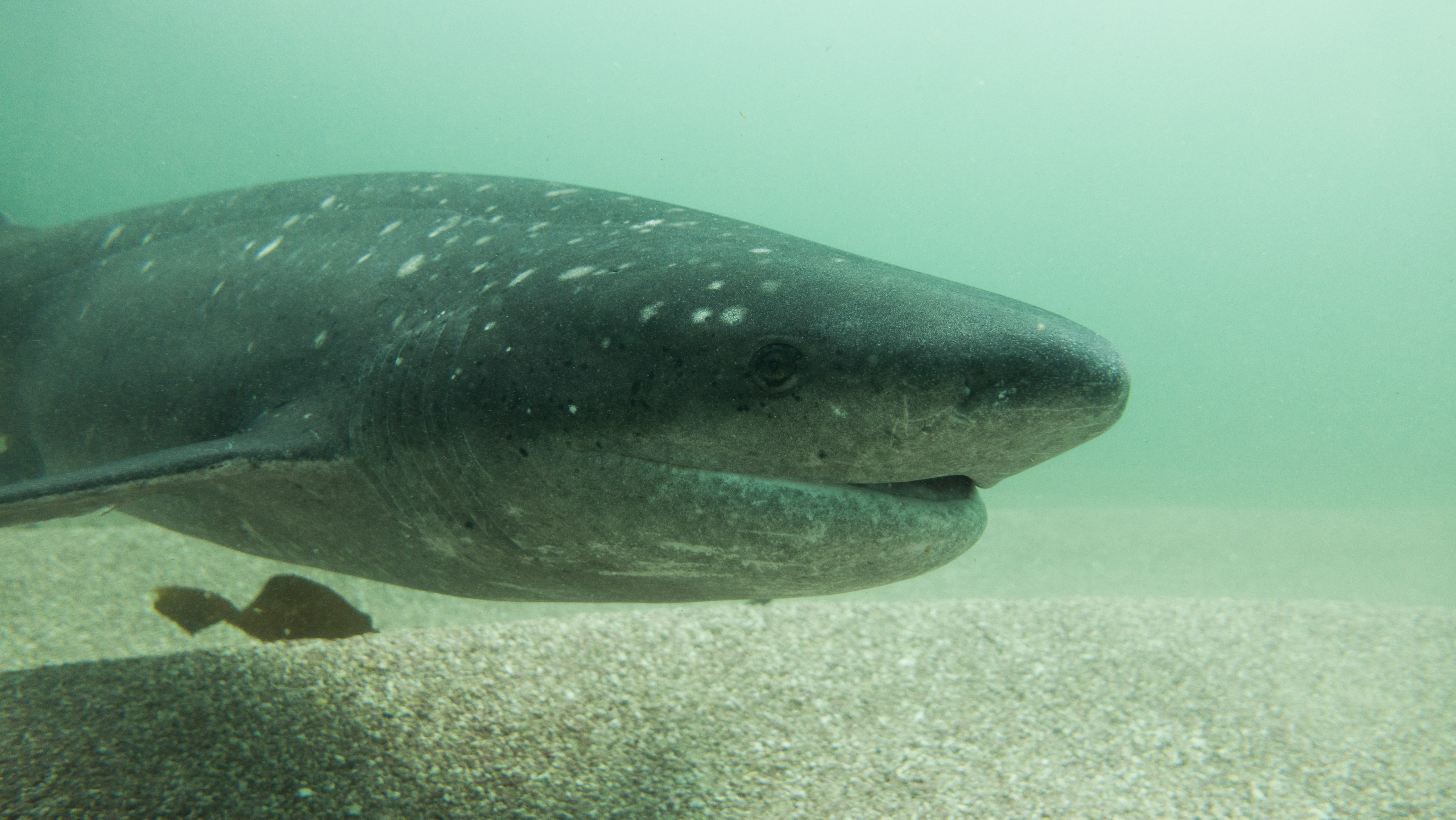 A broadnose seven gill shark.